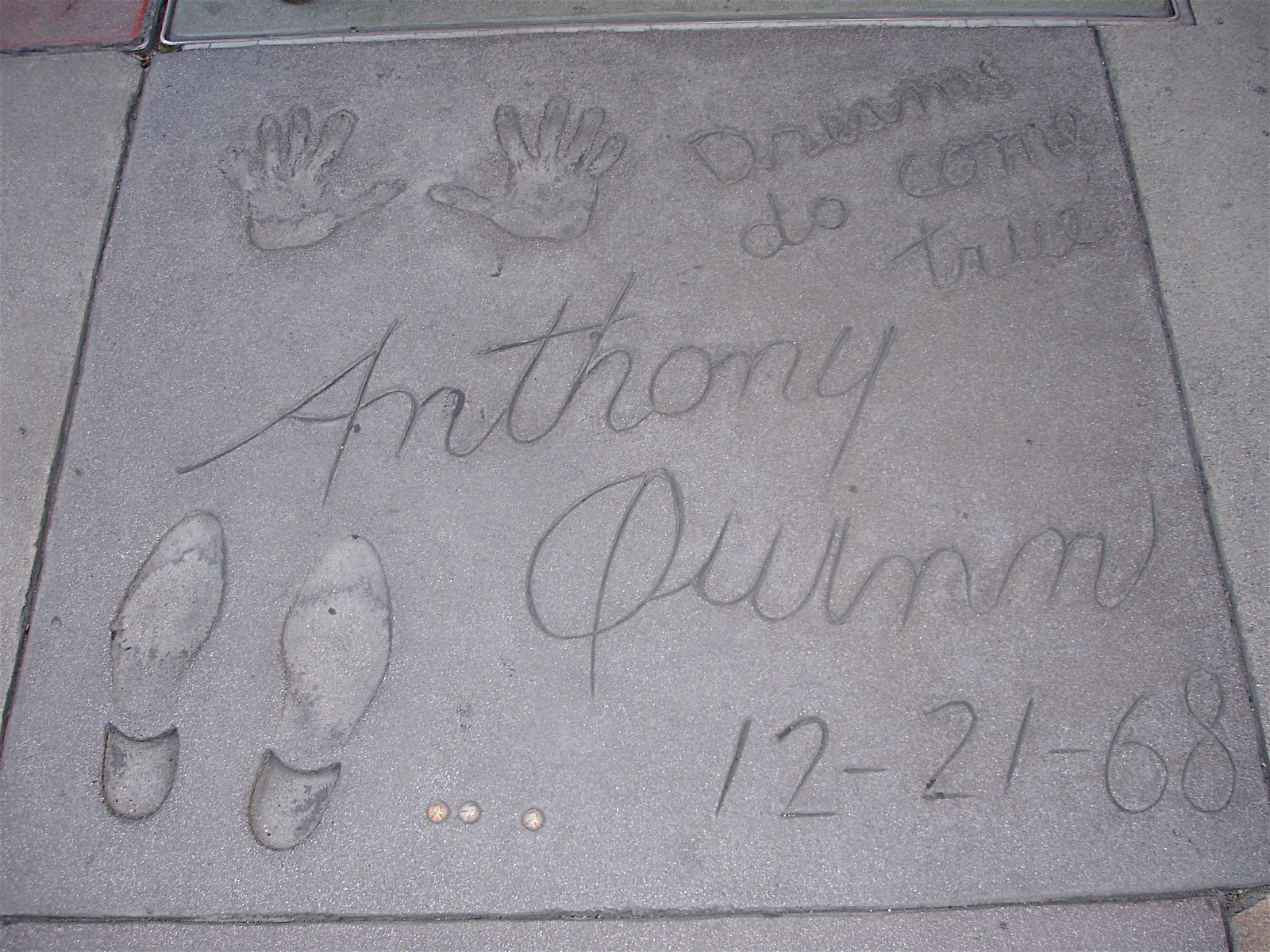 Anthony Quinn Footprint